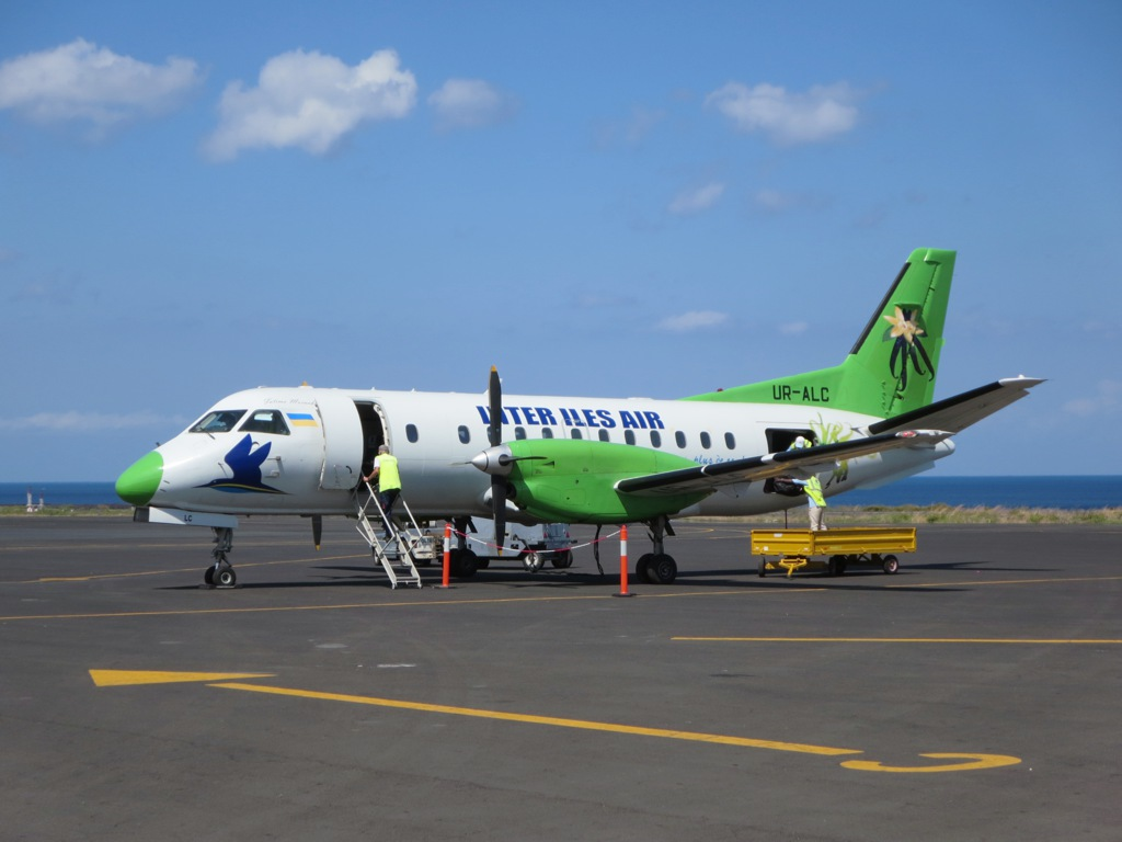 Inter Iles Air uses this SAAB-340B aircraft to link Prince Said Ibrahim International Airport on Grande Comore, Union of the Comoros, to Anjouan and Mayotte several times a week. Prince Said Ibrahim Int'l Airport, Moroni, Comoros